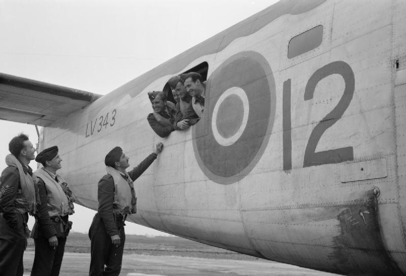 Royal Air Force 1939-1945- Coastal Command A Liberator crew of No 311 (Czech) Squadron at Beaulieu, 21 July 1943. The aircraft is a Mk IIA, serial number LV343.